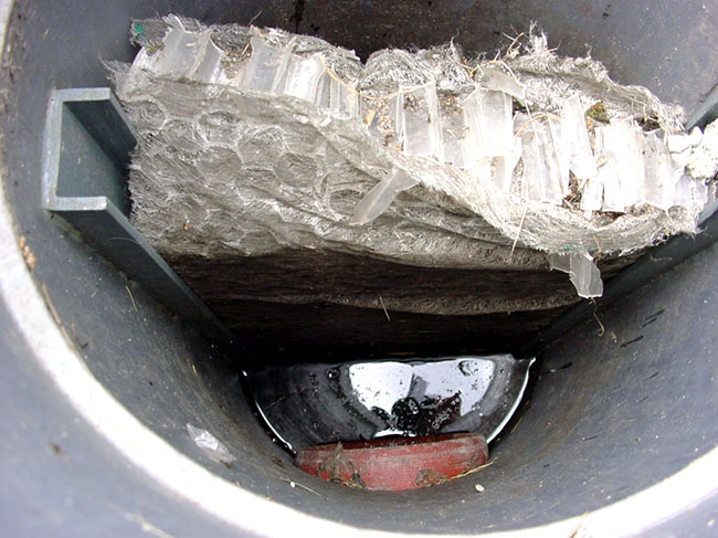 Filter as part of an alternative technic against floods due to soil sealing in cities.